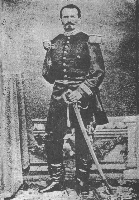 Manuel González, president of Mexico, (1833-1893).